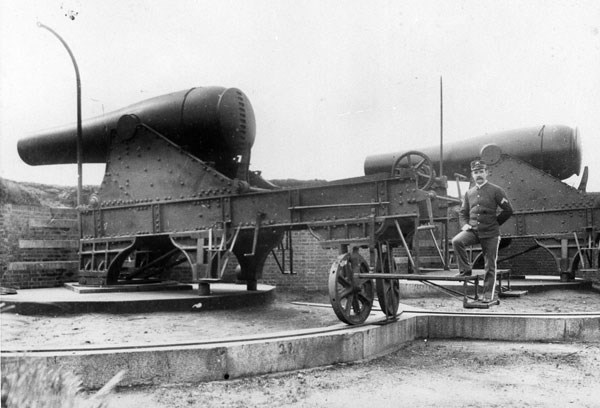 15 inch Rodman cannons (Model 1861 U.S. 15-inch Columbiad) on Alcatraz Island.